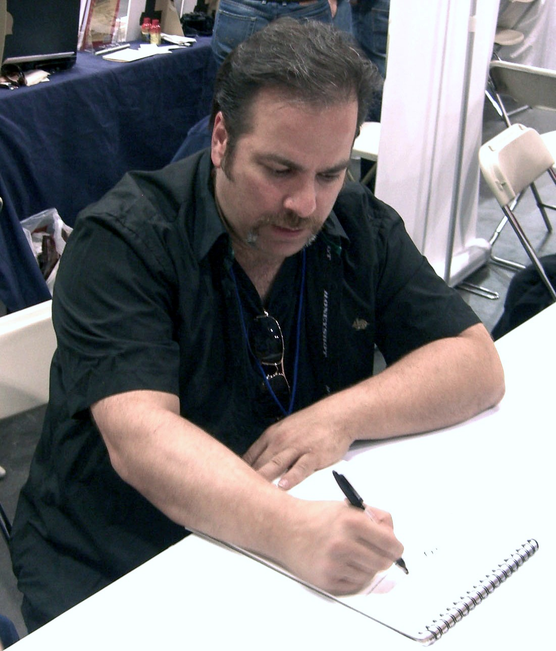 Comic book creator Jimmy Palmiotti, at the New York Comic Convention in Manhattan, October 10, 2010. Photo by Luigi Novi. This photo may be used, modified and published for any purpose, only if a easily visible credit to the photographer is placed near the photo in each instance in which it is used. (See licensing information below.) Publication of this photo without this proper attribution constitute copyright infringement. For more information on my photos, you can contact me here.